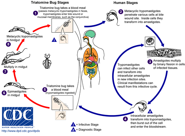 Trypanosomiasis, American [Trypanosoma cruzi] An infected triatomine insect vector (or “kissing” bug) takes a blood meal and releases trypomastigotes in its feces near the site of the bite wound. Trypomastigotes enter the host through the wound or through intact mucosal membranes, such as the conjunctiva . Common triatomine vector species for trypanosomiasis belong to the genera Triatoma, Rhodinius, and Panstrongylus. Inside the host, the trypomastigotes invade cells, where they differentiate into intracellular amastigotes . The amastigotes multiply by binary fission and differentiate into trypomastigotes, and then are released into the circulation as bloodstream trypomastigotes . Trypomastigotes infect cells from a variety of tissues and transform into intracellular amastigotes in new infection sites. Clinical manifestations can result from this infective cycle. The bloodstream trypomastigotes do not replicate (different from the African trypanosomes). Replication resumes only when the parasites enter another cell or are ingested by another vector. The “kissing” bug becomes infected by feeding on human or animal blood that contains circulating parasites . The ingested trypomastigotes transform into epimastigotes in the vector’s midgut . The parasites multiply and differentiate in the midgut and differentiate into infective metacyclic trypomastigotes in the hindgut . Trypanosoma cruzi can also be transmitted through blood transfusions, organ transplantation, transplacentally, and in laboratory accidents.